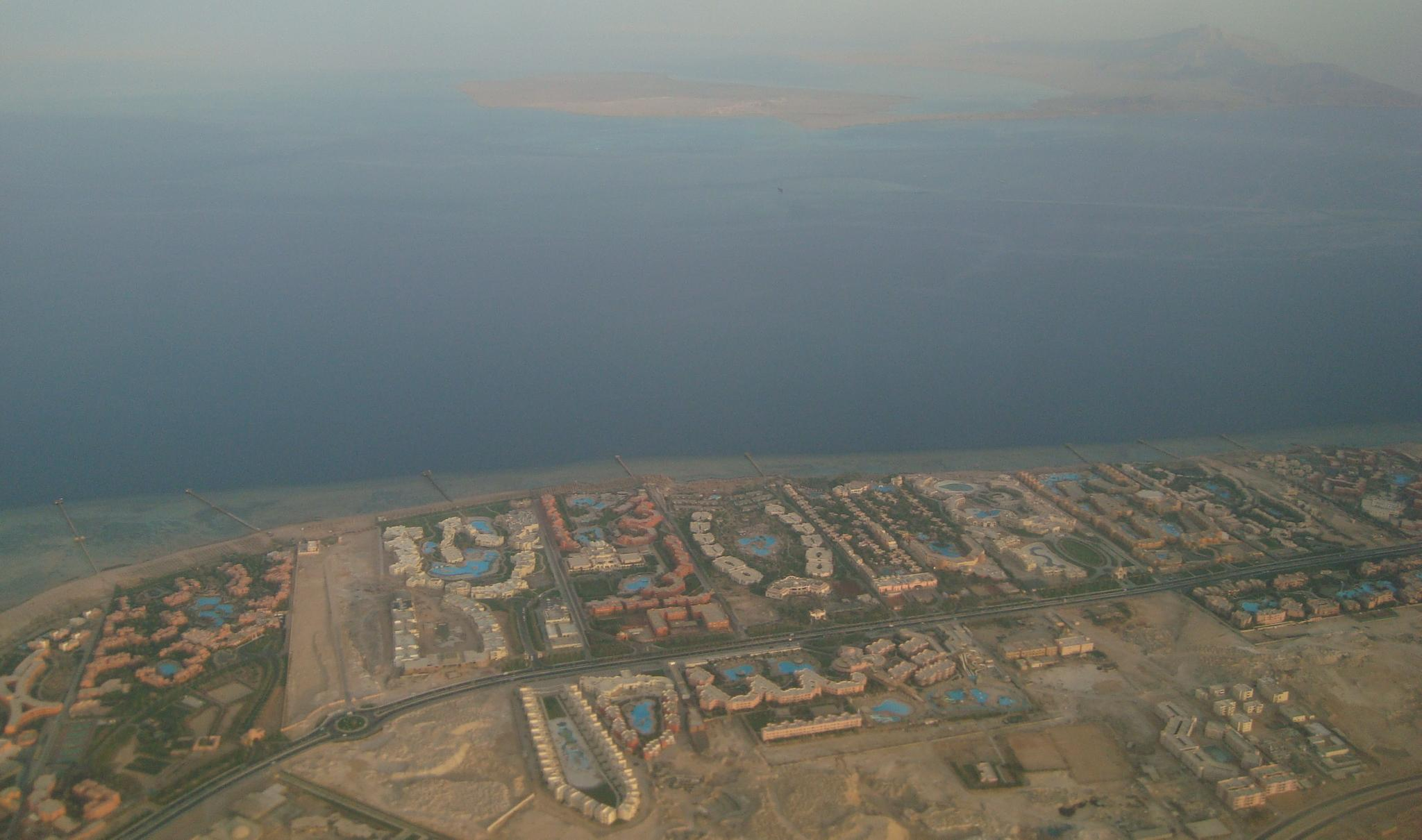 Sharm el-Sheikh & Tiran island.